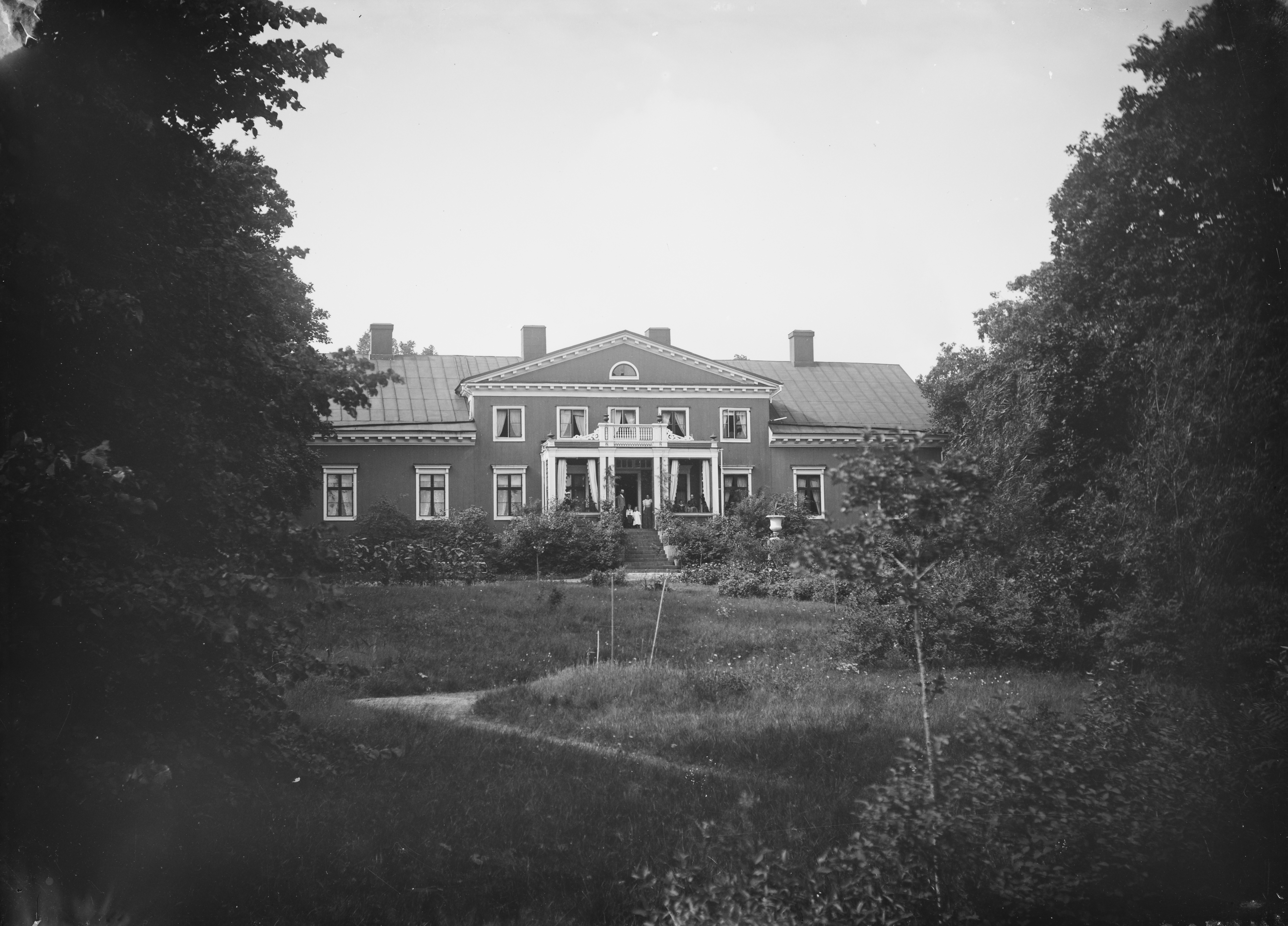 Riilahti estate in Bromarv, Finland